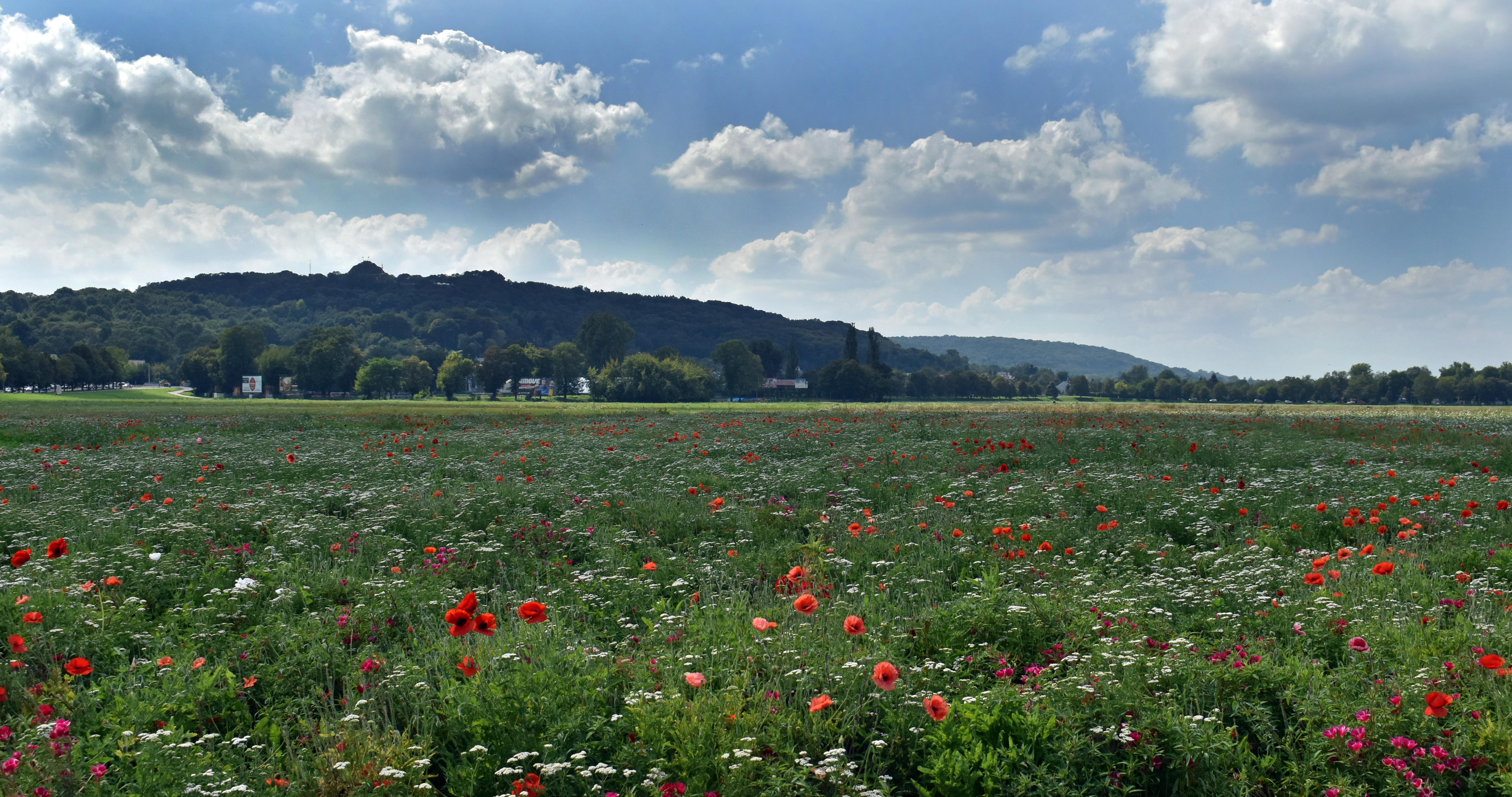 Blonia (Meadow) Park in summer, view to W, Krakow, Poland